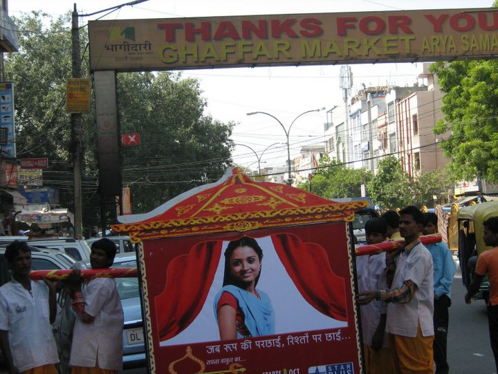 Gaffar Market Entry